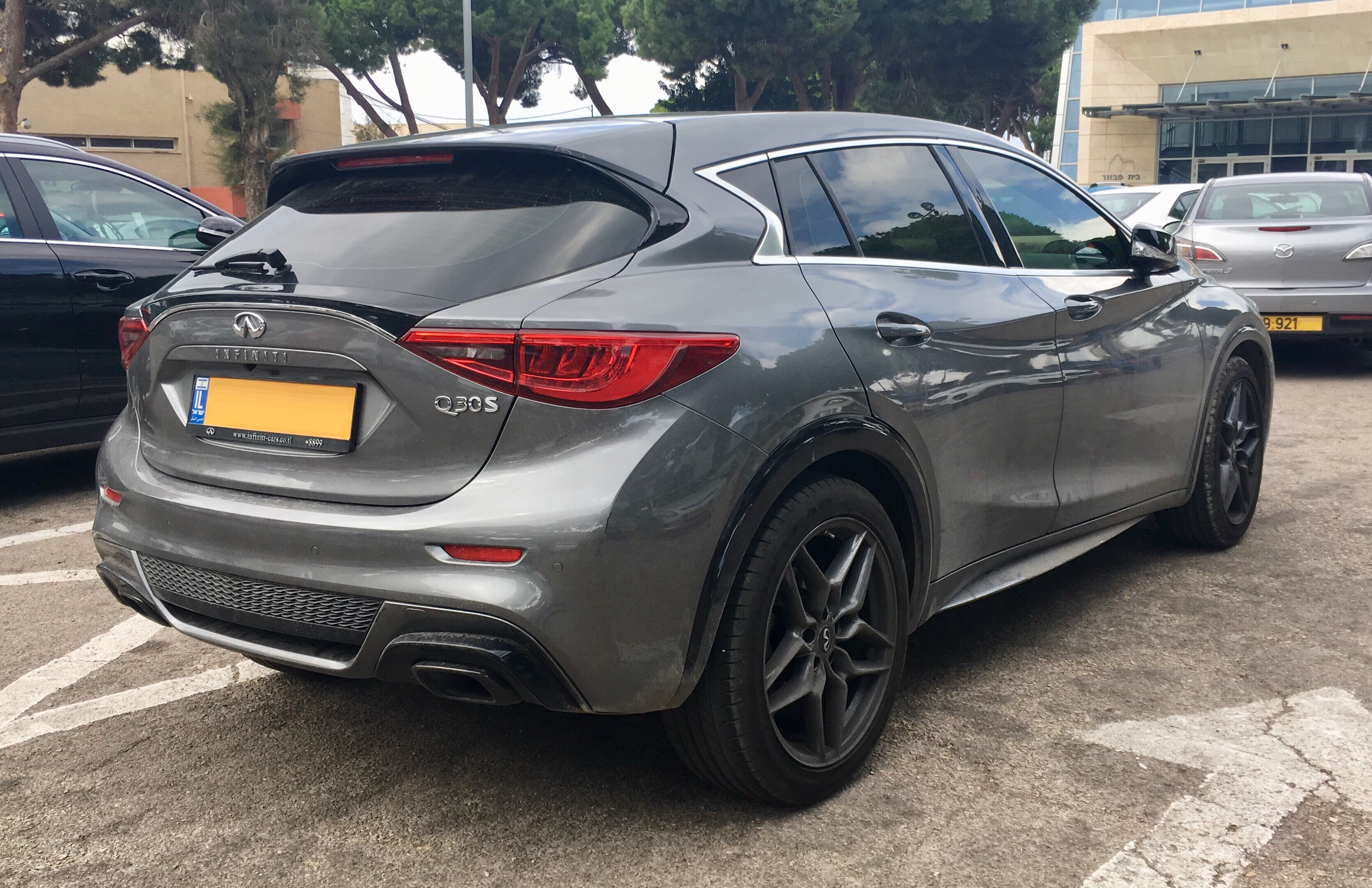 Infiniti Q30 S in Haifa, Israel